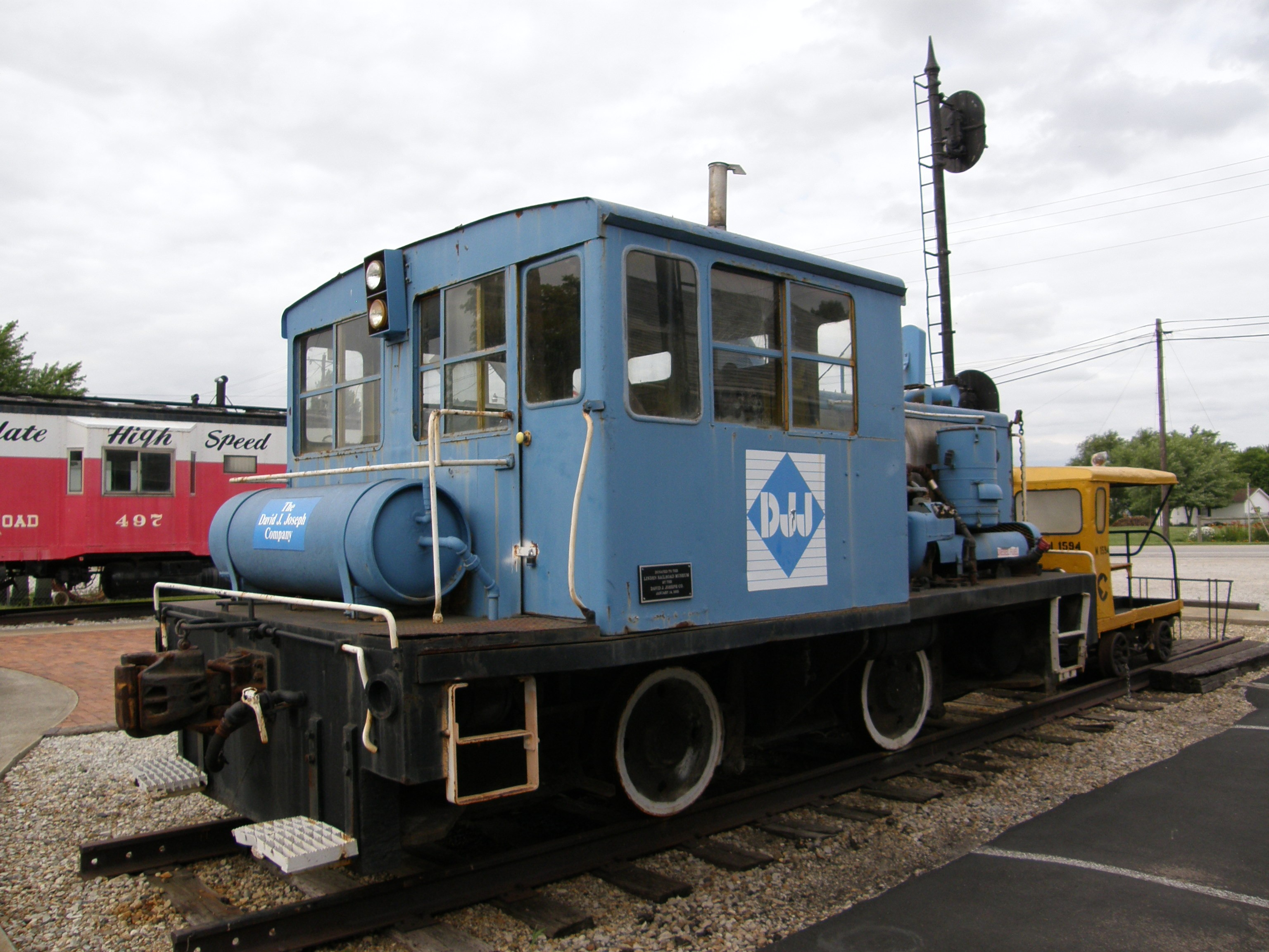 Linden Depot Museum ~ Located in Linden, Montgomery County, Indiana ~ 40 Ton Plymouth Locomotive Linden Depot Museum Homepage